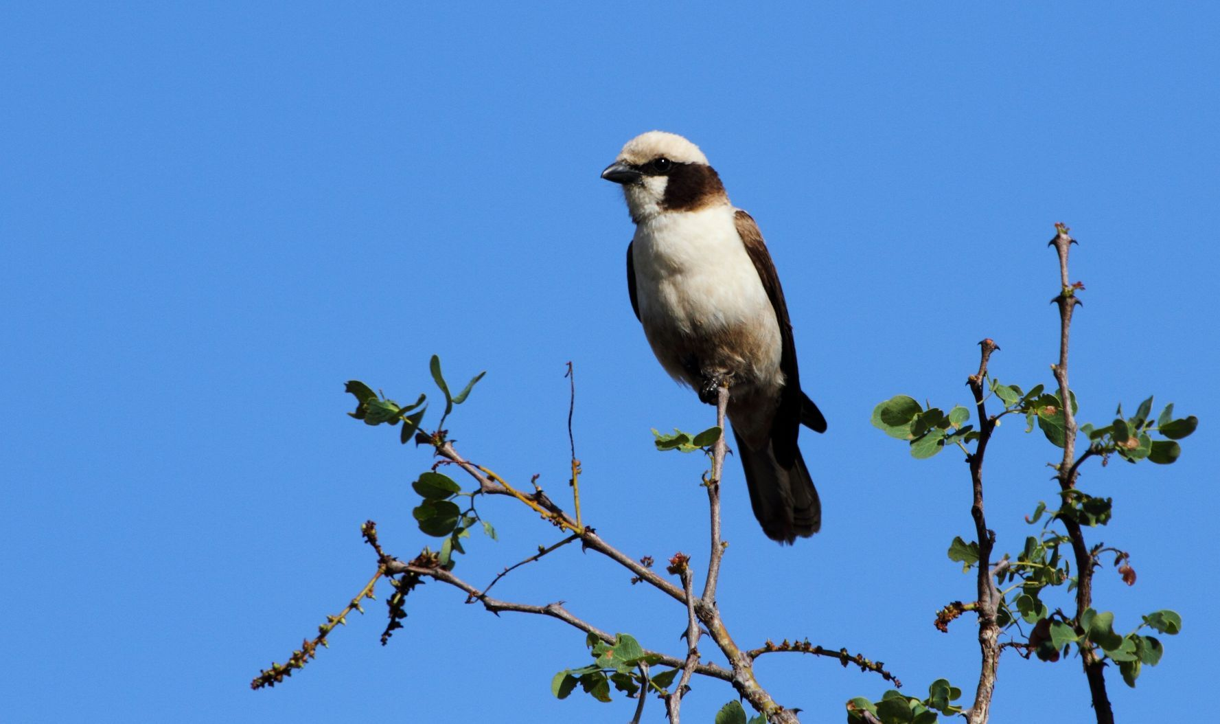 White-crowned shrike Eurocephalus anguitimens perched on a knobthorn Senegalia nigrescens tree near Lower Sabi, Kruger National Park, South Africa.